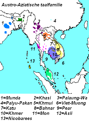 Distribution of Austro-Asiatic languages in South-east Asia according to the classification of Gérard Diffloth (1974).